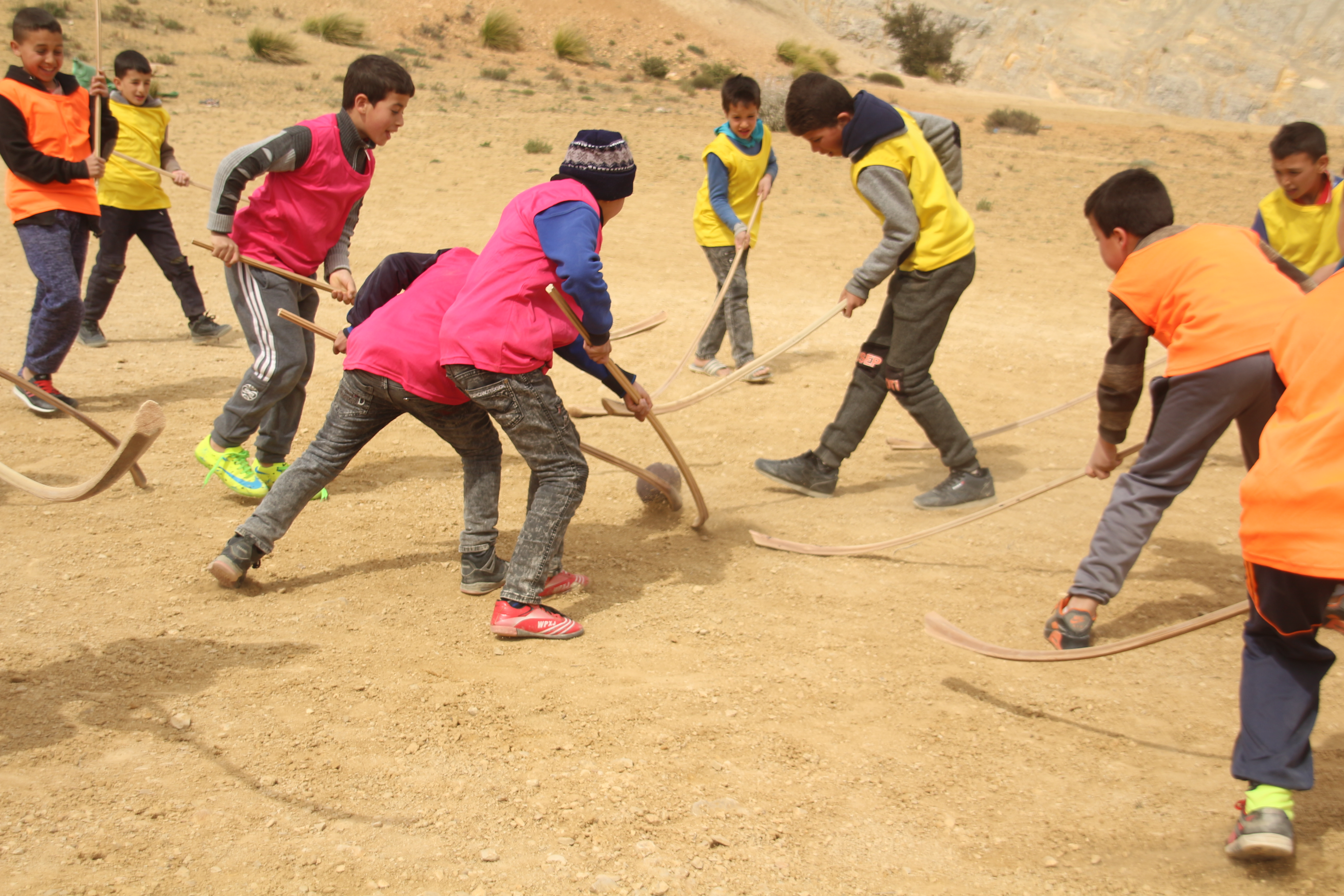 The photo from the Aurès region of Algeria for children playing a game called thakourth, a traditional Amazigh game played by ancient people of the region This is an image with the theme "Play" from: Algeria